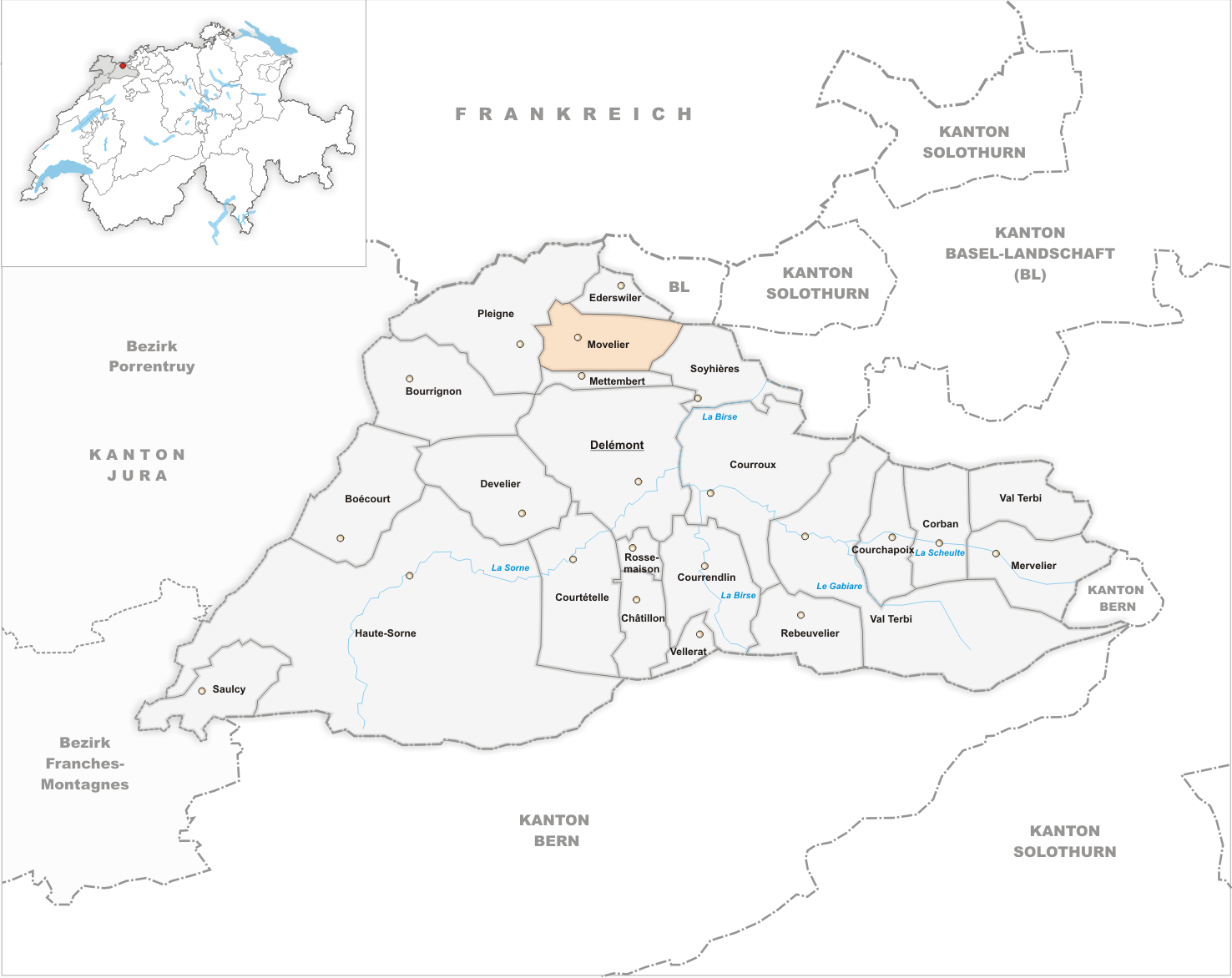 Municipality Movelier